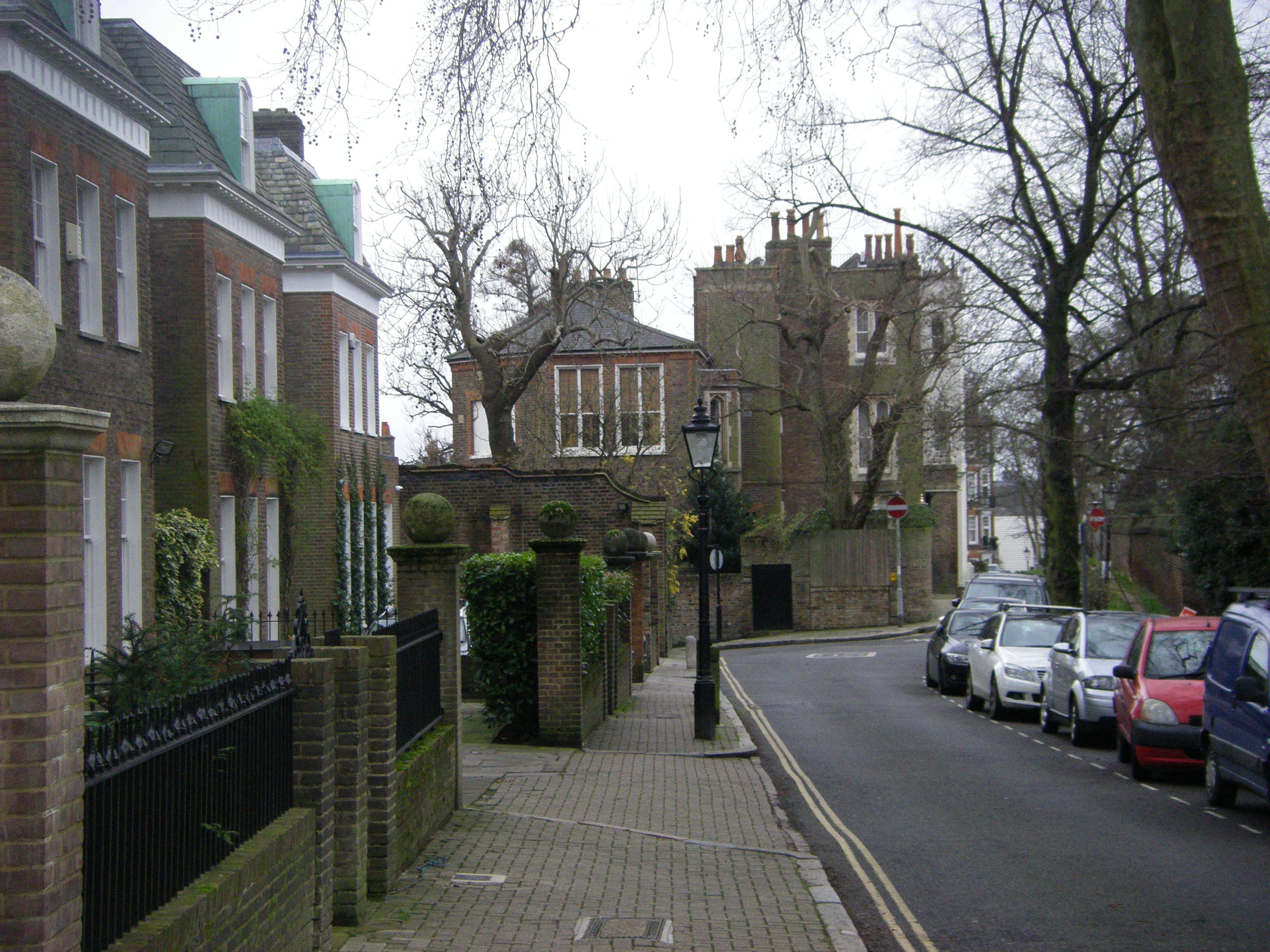 Northern part of Hampstead Grove (30s numbers) with southward view to New Grove House (number 28).